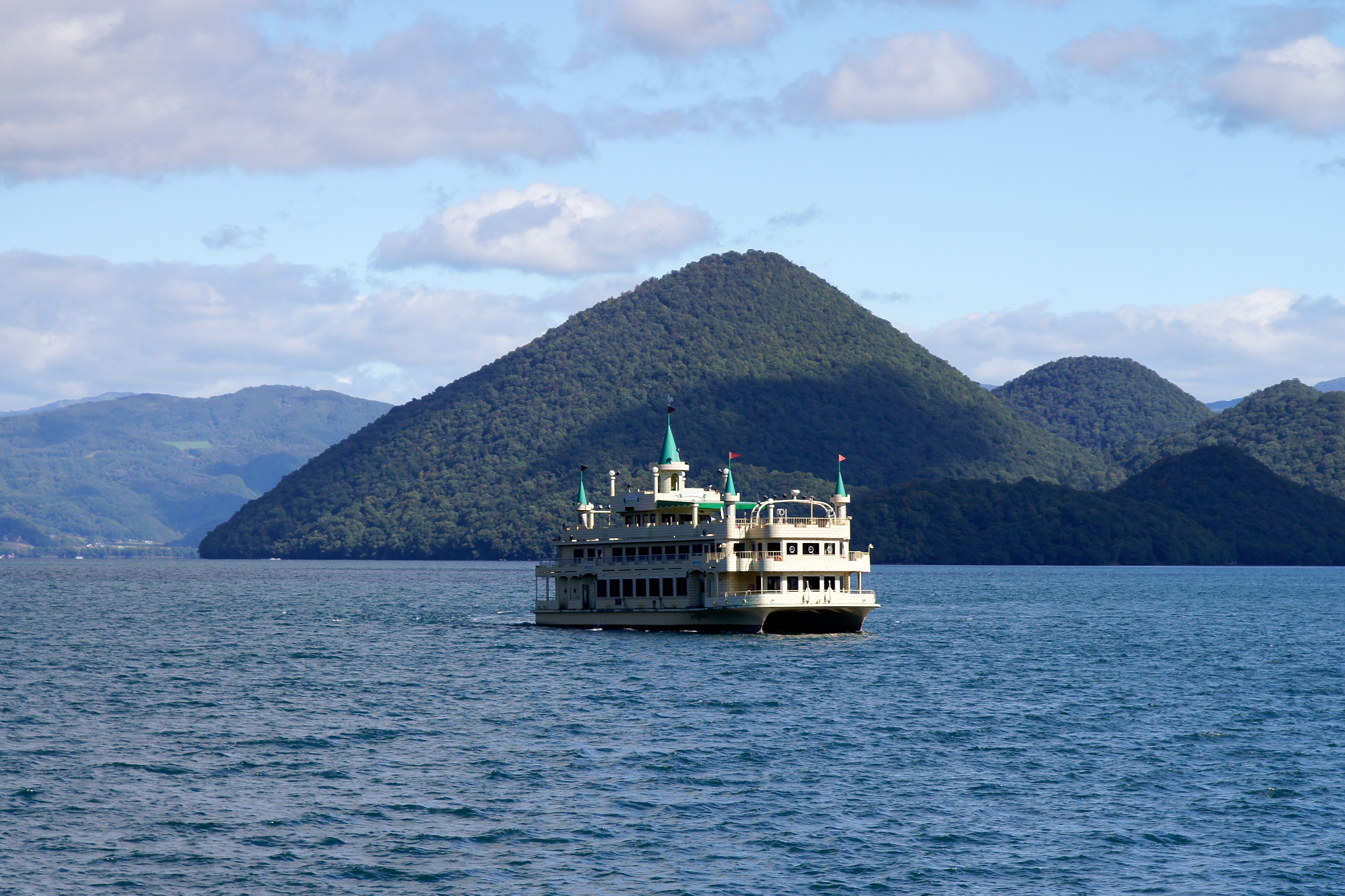 On the lakeside in Lake Tōya, Toyako, Hokkaido prefecture, Japan.